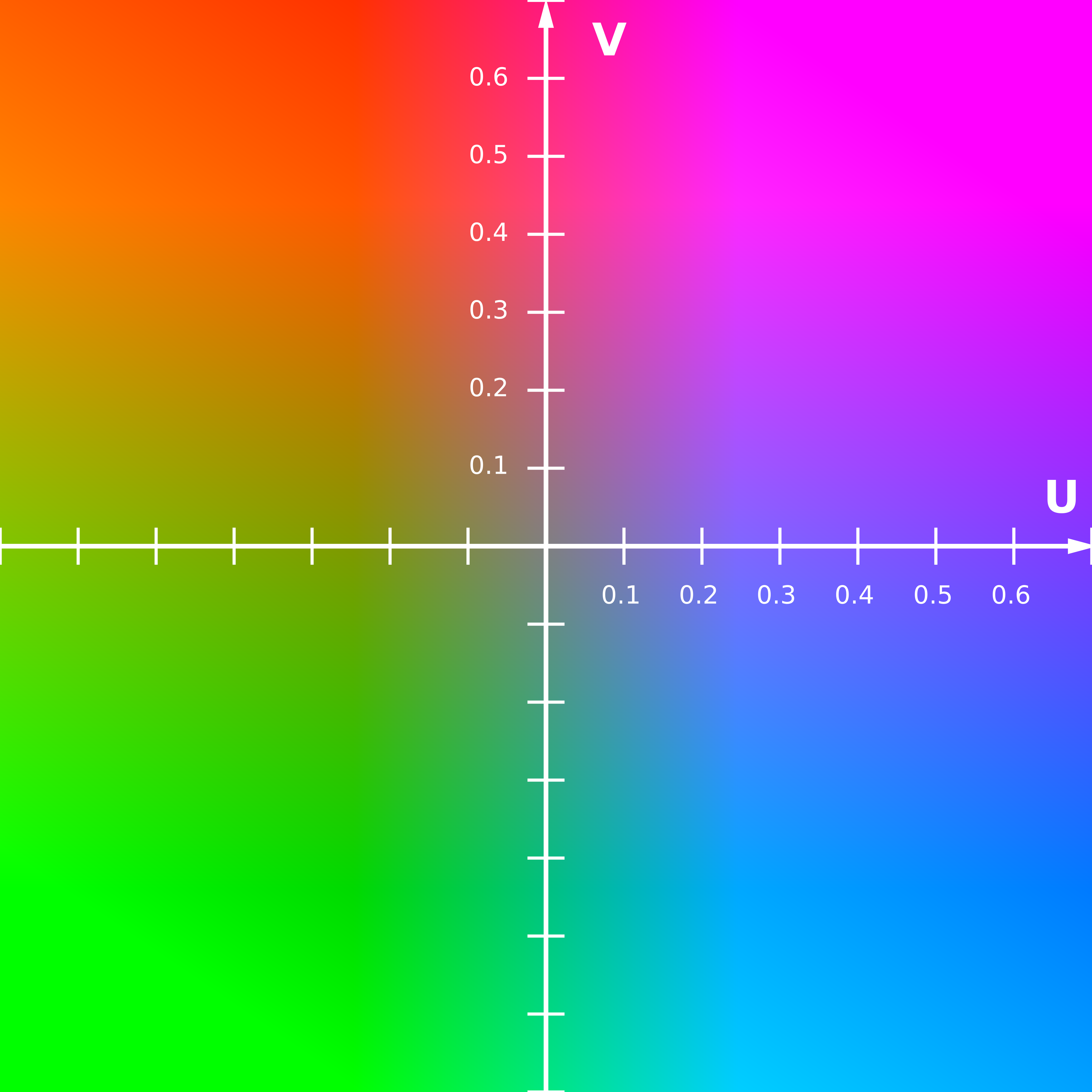 UV plane of the YUV color space, with a Y value of 0.5, U on the horizontal x axis going from -0.7 to 0.7, V on the y axis going from -0.7 to 0.7 as well. Created with kdenlive's export function in the Vectorscope (development version). Scale added with Inkscape.